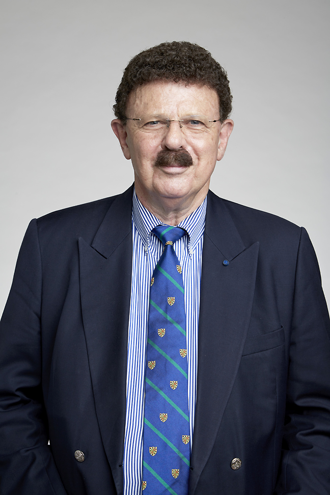 Robert Oliver Ritchie ForMemRS FREng is the H.T. and Jessie Chua Distinguished Professor of Engineering at the University of California, Berkeley and Senior Faculty Scientist at the Lawrence Berkeley National Laboratory. Attribution: The Royal Society